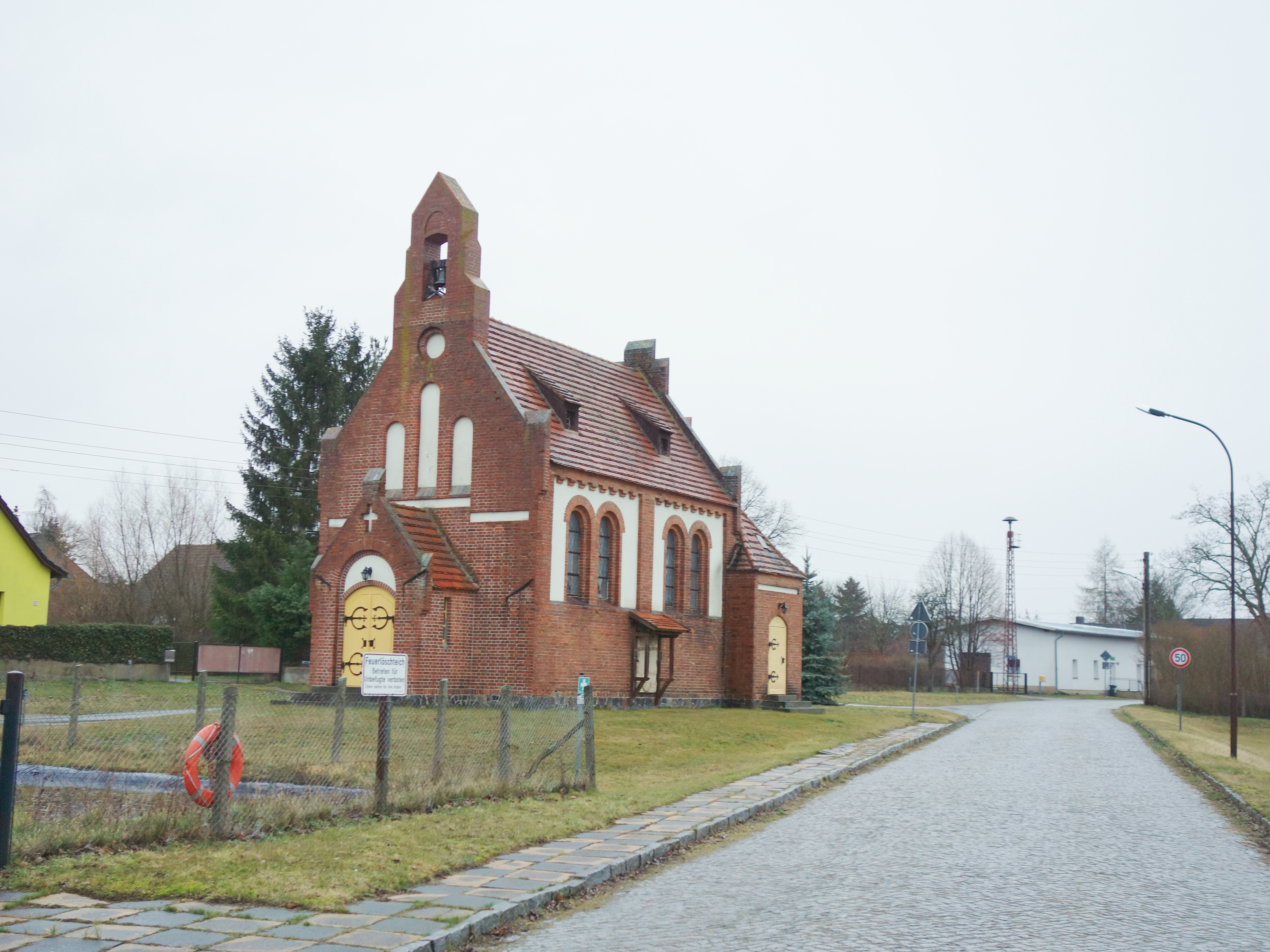 West-south-western view of the church in Leeskow on state road 452, Jamlitz municipality , Dahme-Spreewald district, Brandenburg state, Germany.